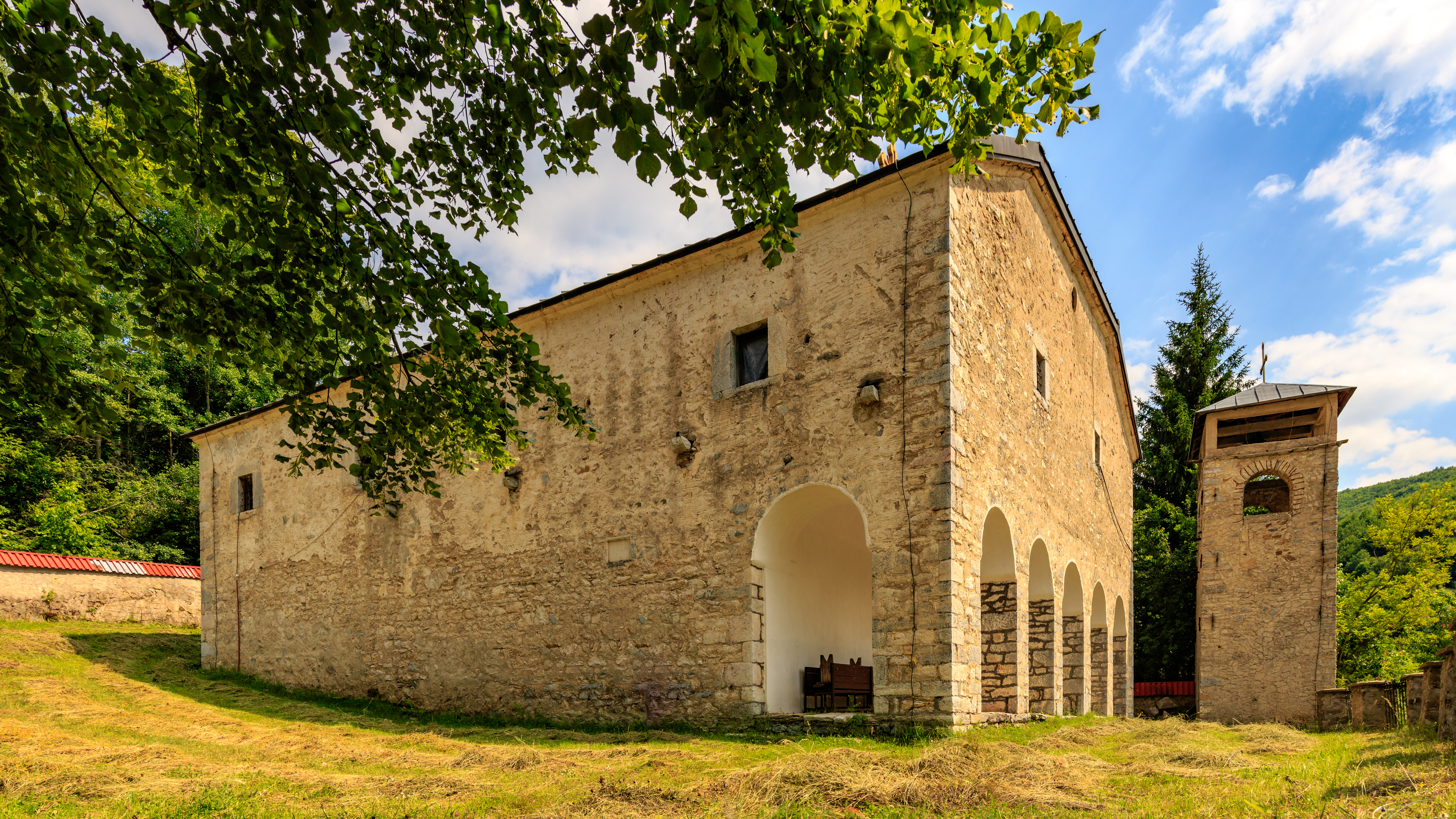 View of the Dormition of the Theotokos Church in the village Leunovo